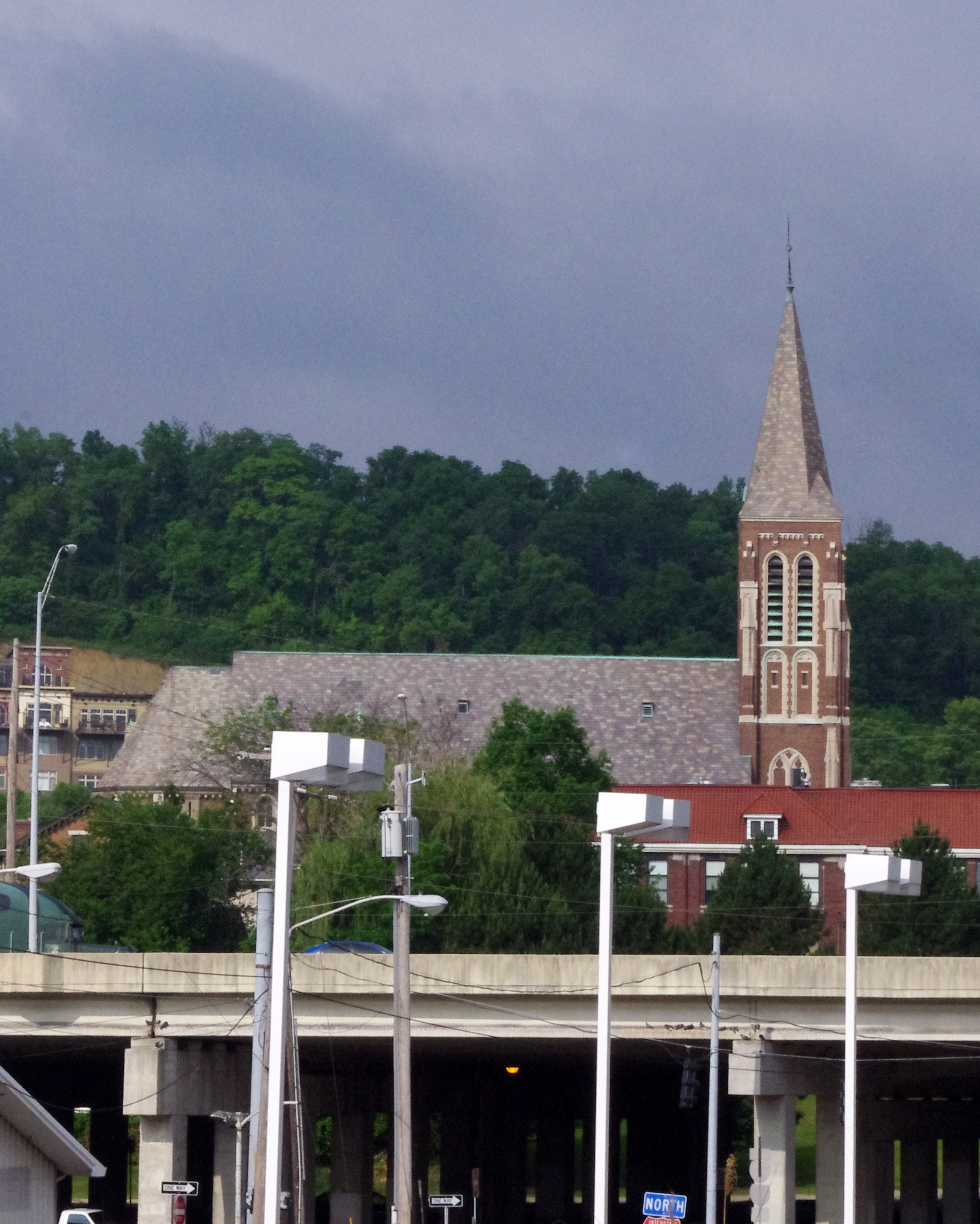 Saint John the Evangelist Church (Covington, Kentucky) - view from the east side of I-75